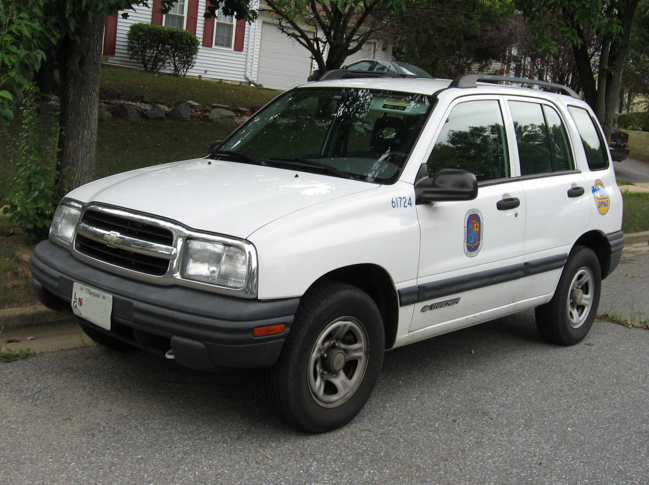 1999-2004 Chevrolet Tracker photographed in USA.